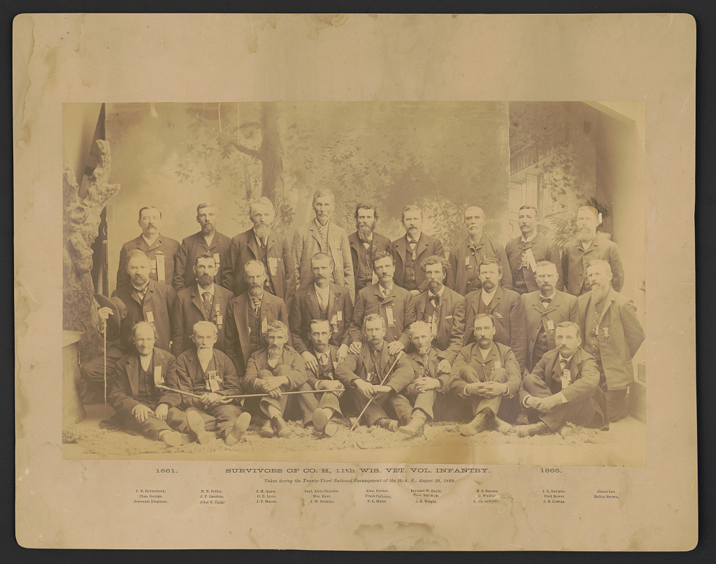 Title: Survivors of Co. H, 11th Wis. Vet. Vol. Infantry Taken during the twenty-third national encampment of the G.A.R., August 28, 1889 / / Sutter, 128 Wisconsin Street, Milwaukee, Wis. Abstract/medium: 1 photograph : albumen print ; sheet 25 x 41 cm, mat 37 x 48 cm.